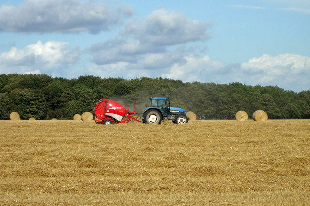 Baler operating near Pikendale Plantation, near to Saxby All Saints, North Lincolnshire, Great Britain. This machine is a Welger RP435 - "Welger RP435 and RP535 variable chamber balers equally handle heavy loads of silage bales as well as big diameters hay and silage. Output is high, and if a blockage occurs, the floor can be dropped and the blockage passed without leaving the tractor seat. The belts have two layers of reinforcement that have been proven to last beyond expectation, thus enormously reducing the running costs of the belt balers."